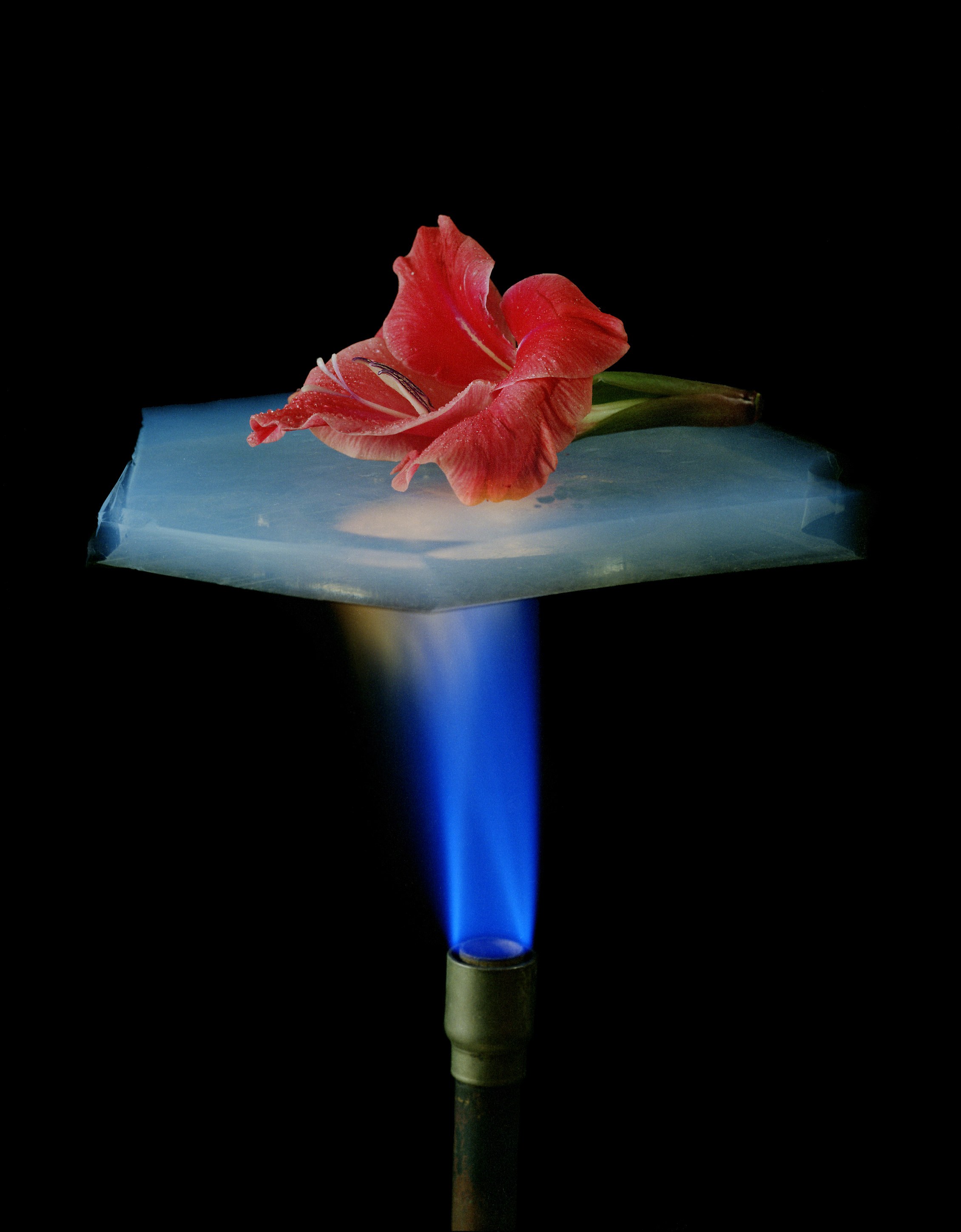 A flower is on a piece of aerogel which is suspended over a bunsen burner. Aerogel has excellent insulating properties, and the flower is protected from the flame.